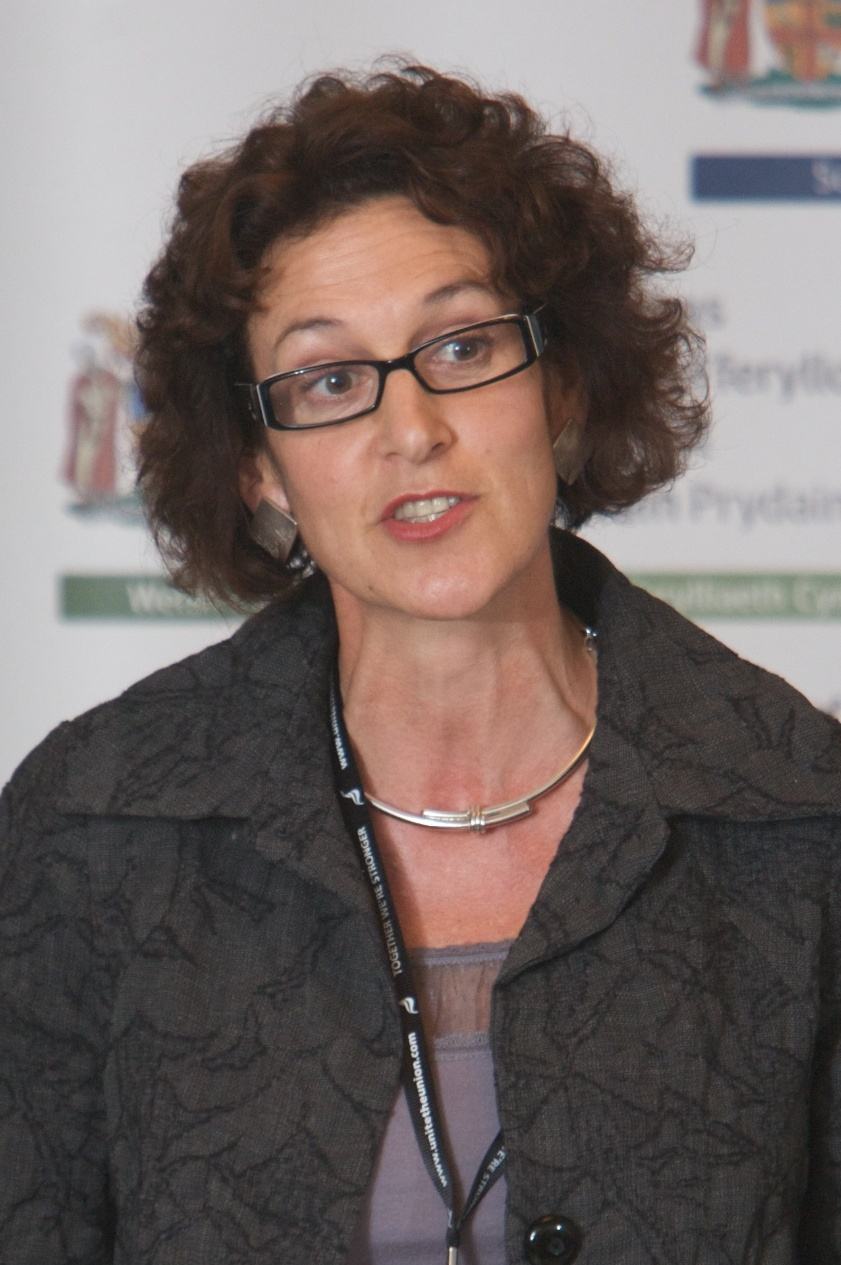 Gillian Merron, British politician and Minister of State for Public Health, speaking at the Health Hotel session "Credit Crunch to Health Crunch: what the recession means for health inequalities" at the Hilton Metropole, Brighton, during the Labour Party Conference 2009.